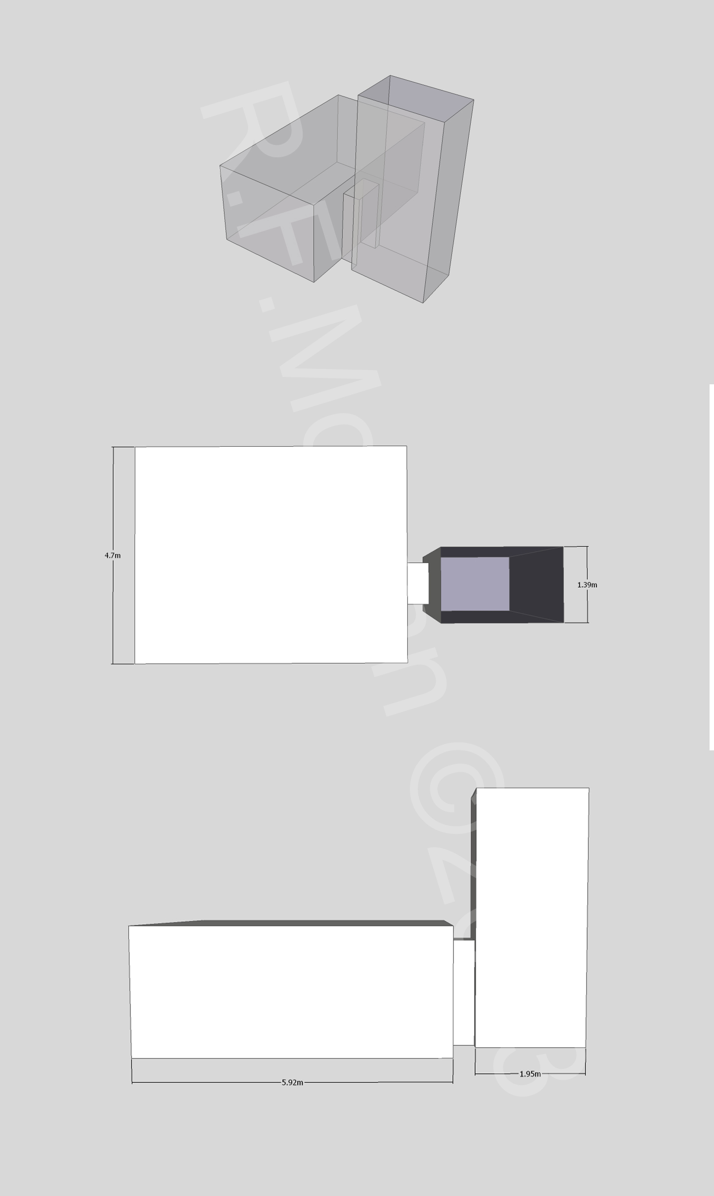 Isometric, plan and elevation images of KV48 taken from a 3d model